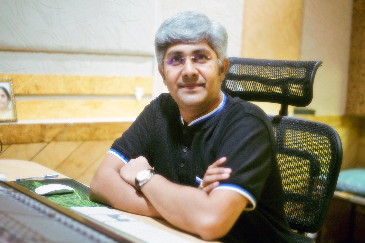 Sai Shravanam @ Resound India Studio